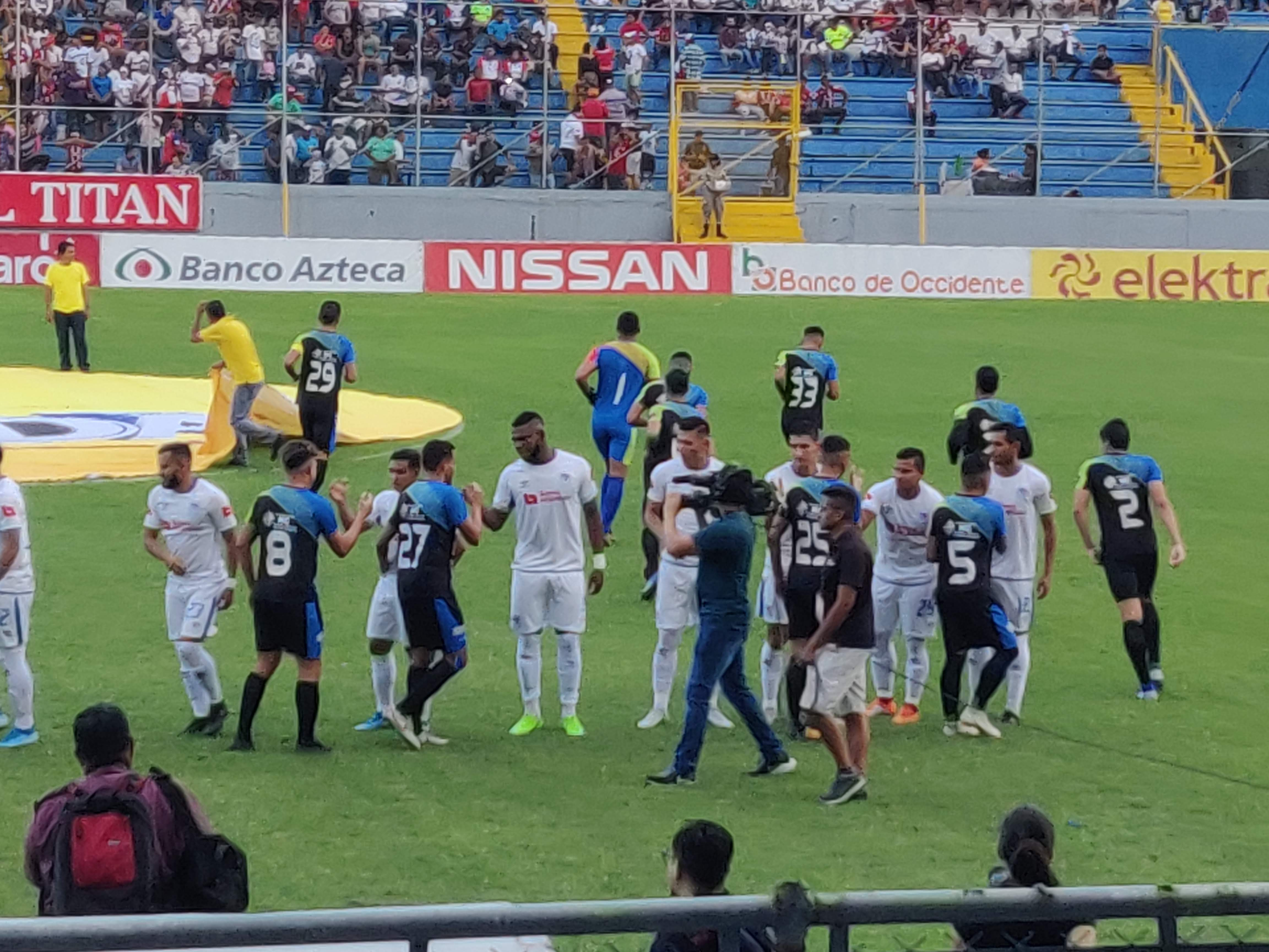 Match Real de Minas vs Olimpia